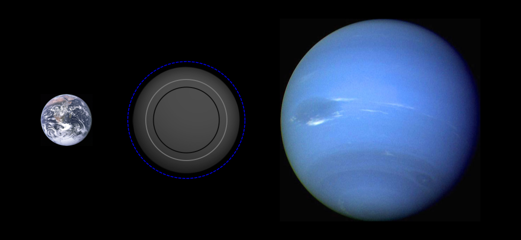 Comparison of several possible sizes for the exoplanet Gliese 581 c with the Solar System planets Earth and Neptune, using approximate models of planetary radius as a function of mass[1] for several possible compositions, based on mass reported in the Extrasolar Planets Encyclopaedia[2] as of 2010-10-03. Models include: water world with a rocky core, composed of 75% H2O, 3% Fe, 22% MgSiO3 hypothetical pure water (ice) planet, the largest size for Gliese 581 c without a significant H/He envelope rocky terrestrial "Earth-like" planet, composed of 67% Fe, 32.5% MgSiO3 hypothetical pure iron planet, Gliese 581 c's theoretical smallest size Gliese 581 c is not likely to be smaller than the iron planet, and will be considerably larger than the water planet if significant H or He is present. For non-transiting planets, all modeled sizes will be underestimates to the extent that the planet's actual mass is larger than the reported minimum mass. ↑ Seager, S.; M. Kuchner, C. A. Hier-Majumder and B. Militzer (2007). "Mass–radius relationships for solid exoplanets". The Astrophysical Journal 669: 1279–1297. Retrieved on 2010-08-27. ↑ Extrasolar Planets Encyclopaedia (2010-09-30). Retrieved on 2010-10-03.